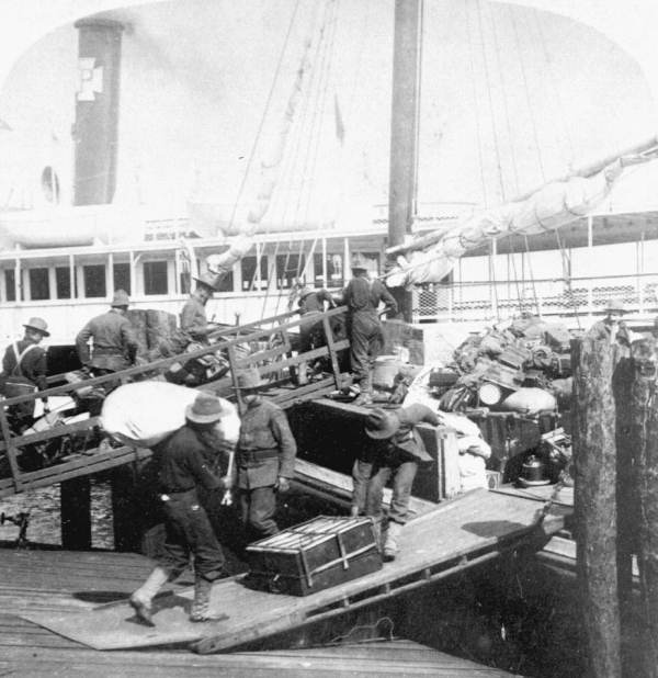 Local call number: PR10241 Title: [Loading camp supplies at Tampa] Date of image: 1898. Physical descrip: 1 photonegative : b&w ; 3 x 5 in. Series Title: (Print collections.) Repository: 500 S. Bronough St., Tallahassee, FL 32399-0250 USA. Contact: 850-245-6700. Persistent URL